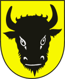 Coat of arms of Zubří town, Vsetín District, Czech Republic